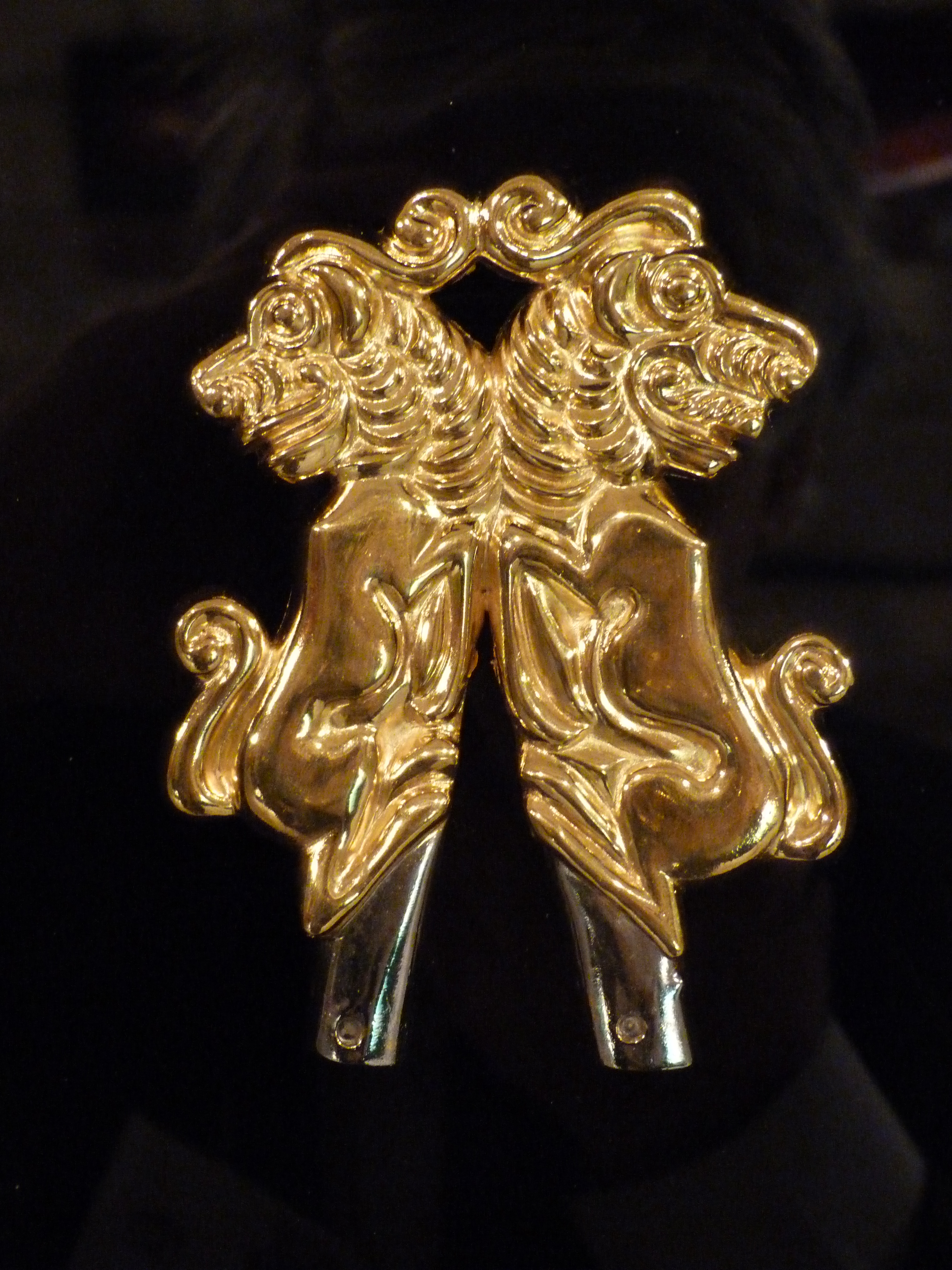 Empire of the Sun. Scytians ! Great, honorable men ! Remember the beginning of your way ! Live on the 13th of November, 2012, Budapest, VAM Design Center. Published under Creative Commons in the Metapolisz DVD line. All of the photos and vids in the Metapolisz DVD line are under Creative Commons and can be used even for commercial - for profit - purposes. Recommended citation: Derzsi Elekes Andor: Metapolisz DVD line Sources: Сенсационной называют свою находку археологи, обнаружившие в Карагандинской области «золотого человека» Sun emperor File:Sun_emperor.JPG Még mindig tagadnunk kell? Szkíta „aranyembert” találtak a kazah régészek A szkíta Napherceg Szkíta kincsekből nyílik egyedülálló kiállítás Budapesten: Badinyi-Jós Ferenc :a tatárlakai korong szövegének megfejtése: „Oltalmazónk! Minden titok dicső Nagyasszonya! Vigyázó két szemed óvjon, Napatyánk fényében!” Szathmáry megfejtése: „Egyetlen, magasztos Teljességünk leáldozóban, de Fény atyánk arca felemelkedik, ismét felragyog, s betölti dicsőségét!”